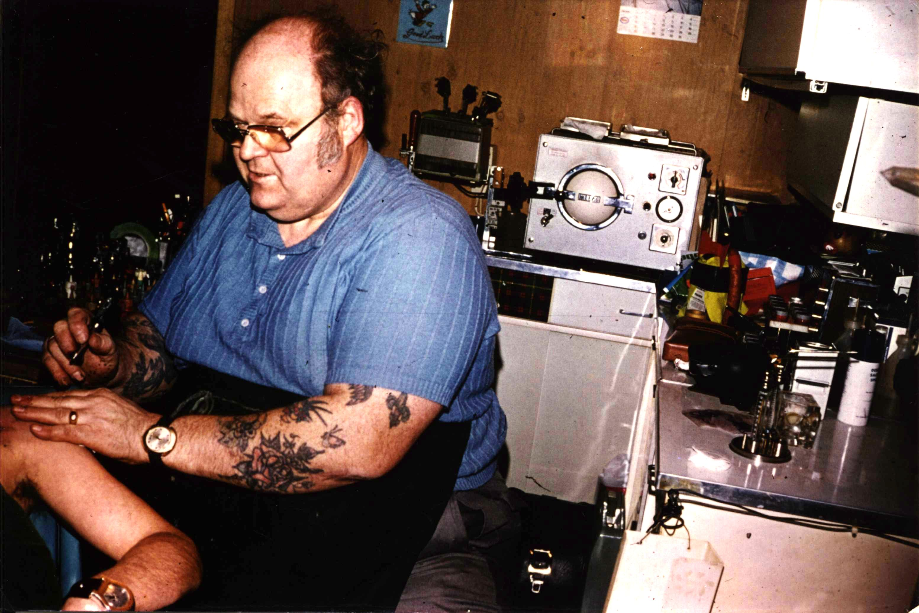 Tattoo Samy, Horst Heinrich Streckenbach, in his Tattoo-Studio, Frankfurt / M., Germany, in 1979.